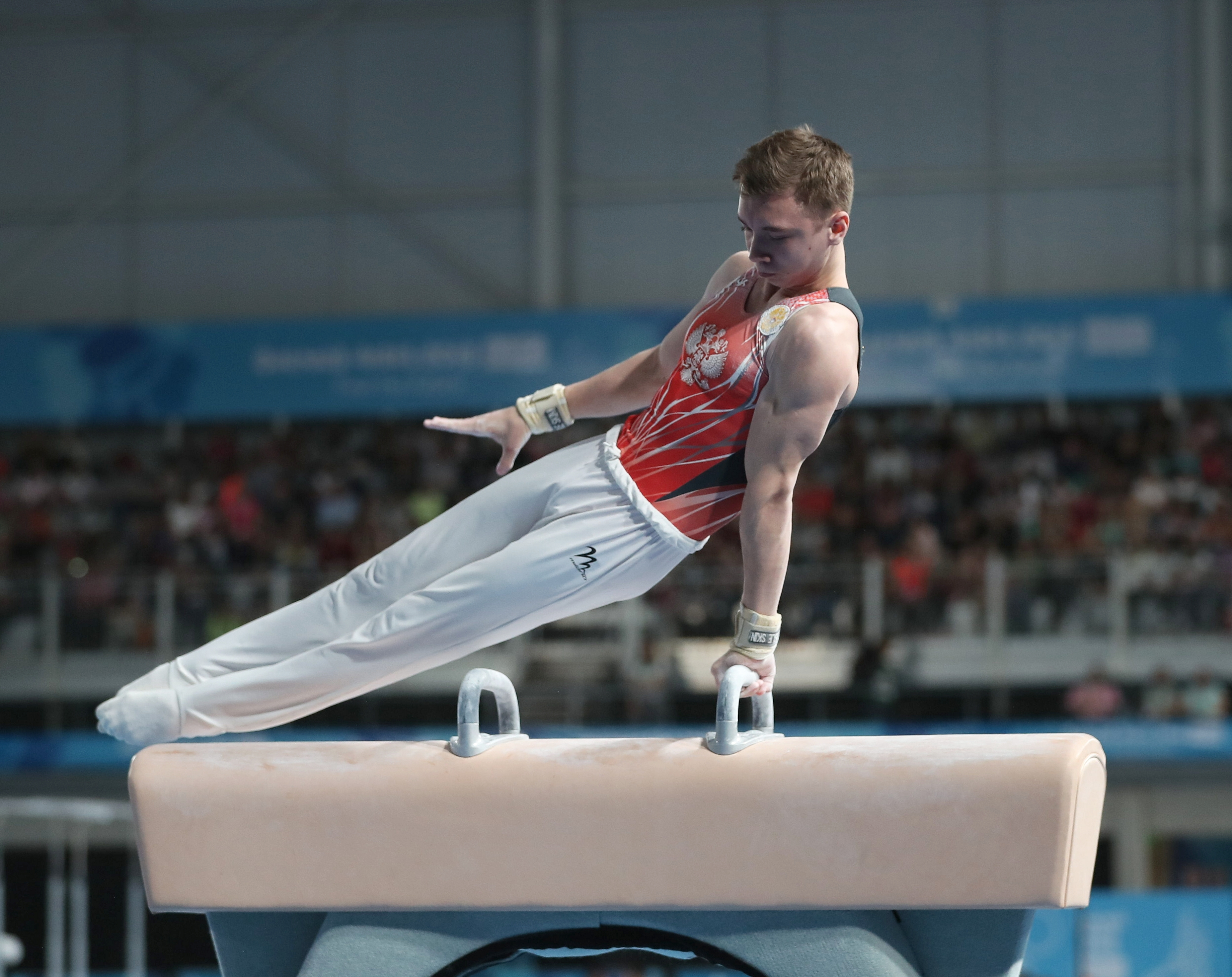 Pommel horse apparatus final of the boys' artistic gymnastics at the 2018 Summer Youth Olympics in Buenos Aires on 13 October 2018. Depicted: Sergei Naidin.